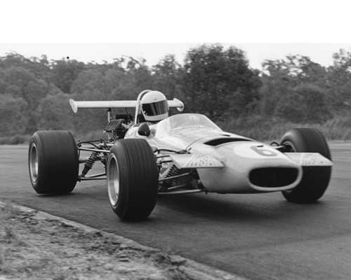 Max Stewart in the Alec Mildren Racing entered Mildren Waggott TC4V at the Lakeside round of the 1971 Australian Drivers' Championship